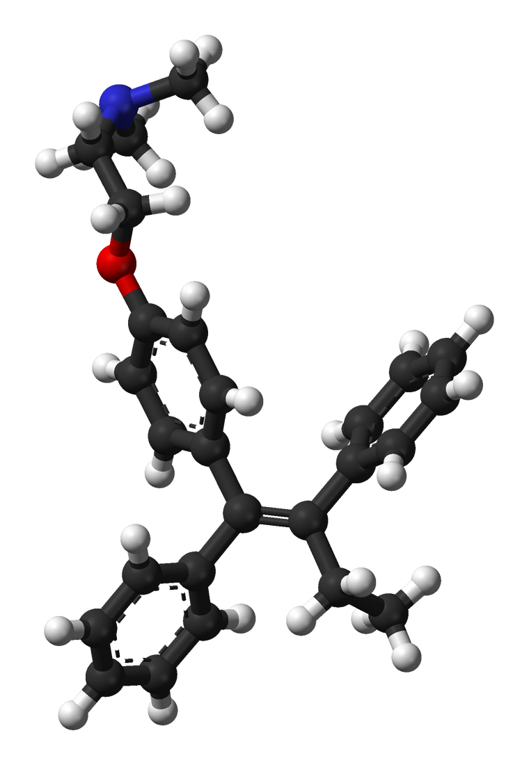 Ball-and-stick model of the tamoxifen molecule, as found in the solid state. X-ray diffraction data from G. Precigoux, C. Courseille, S. Geoffre et M. Hospital (1979). "[p-(Diméthylamino-2 éthoxy)phényl]-1 trans-diphényl-1,2 butène-1 (tamoxfène) (ICI-46474)". Acta Crystallographica Section B 35: 3070-3072.